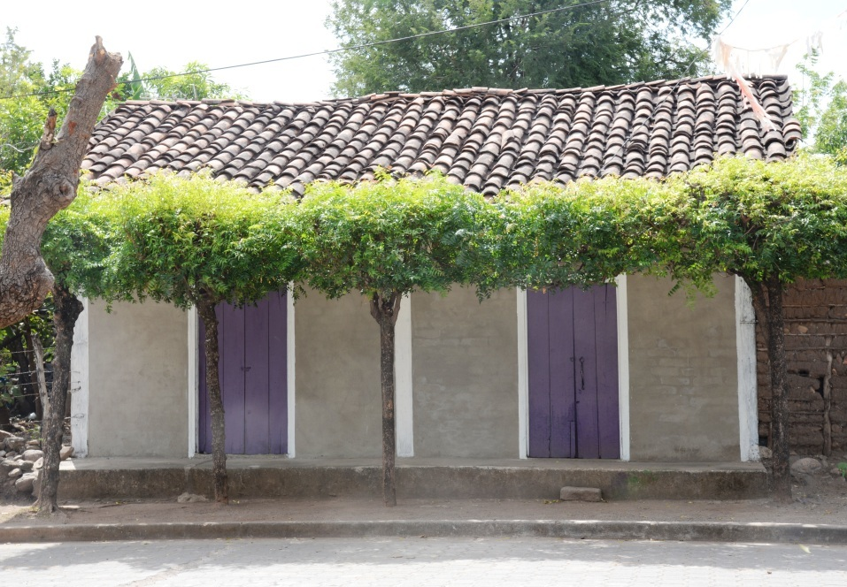 Casa en Santa Rosa del Peñón, Nicaragua.